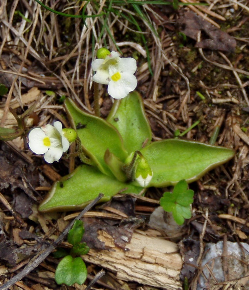 Pinguicula alpina at Rax, Lower Austria.